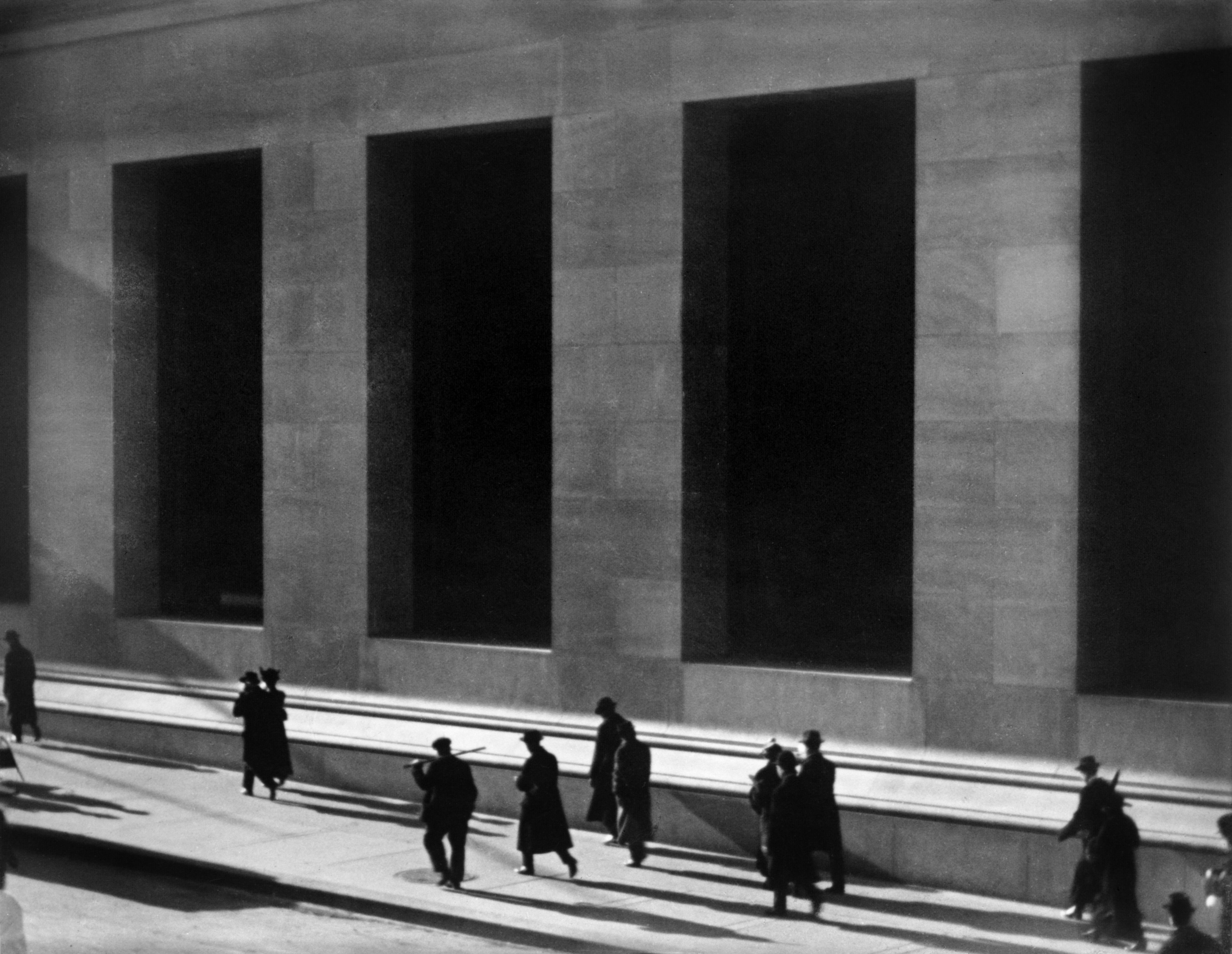 Aerial view of pedestrians walking along Wall Street in strong sunlight and building in background with large recesses (likely 23 Wall Street, the headquarters of J.P. Morgan & Co.). Published in Camera Work, v. 48, p. 25. October 1916.